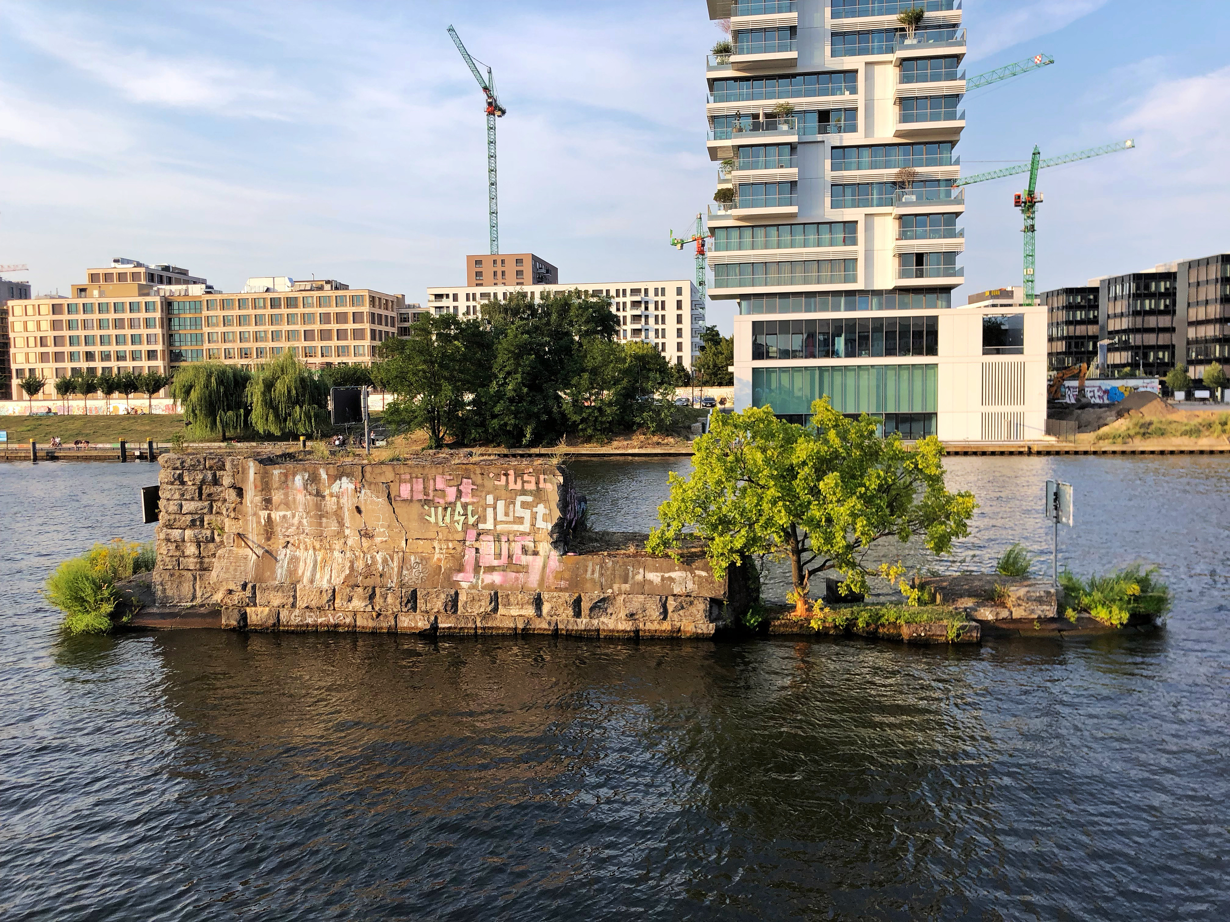 The remains of Brommy Brücke, Kreuzberg, Berlin